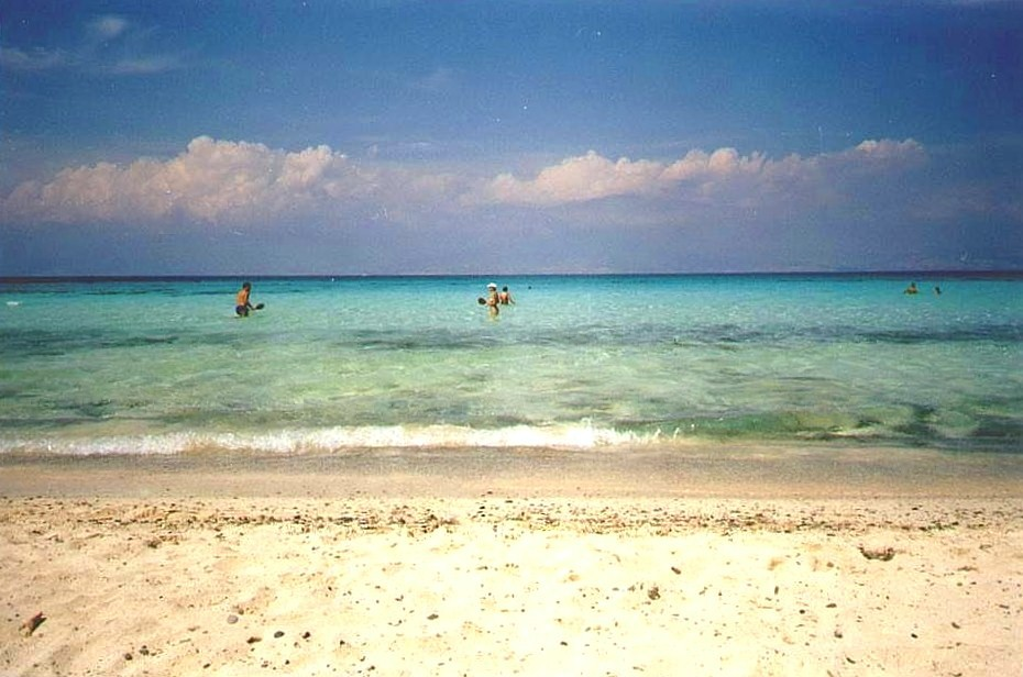 Beach on the island of Chrysi near Crete.